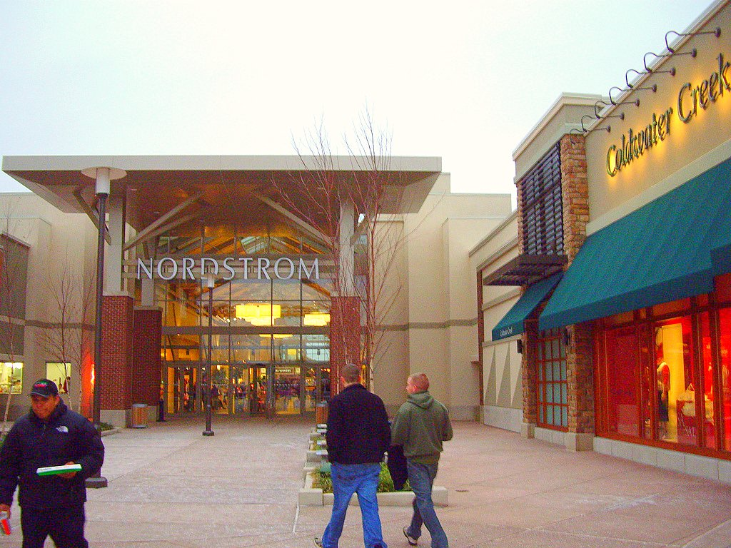 The Nordstrom and Coldwater Creek in the new outdoor section of the Freehold Raceway Mall in Freehold, New Jersey. The outdoor portion opened in 2007.